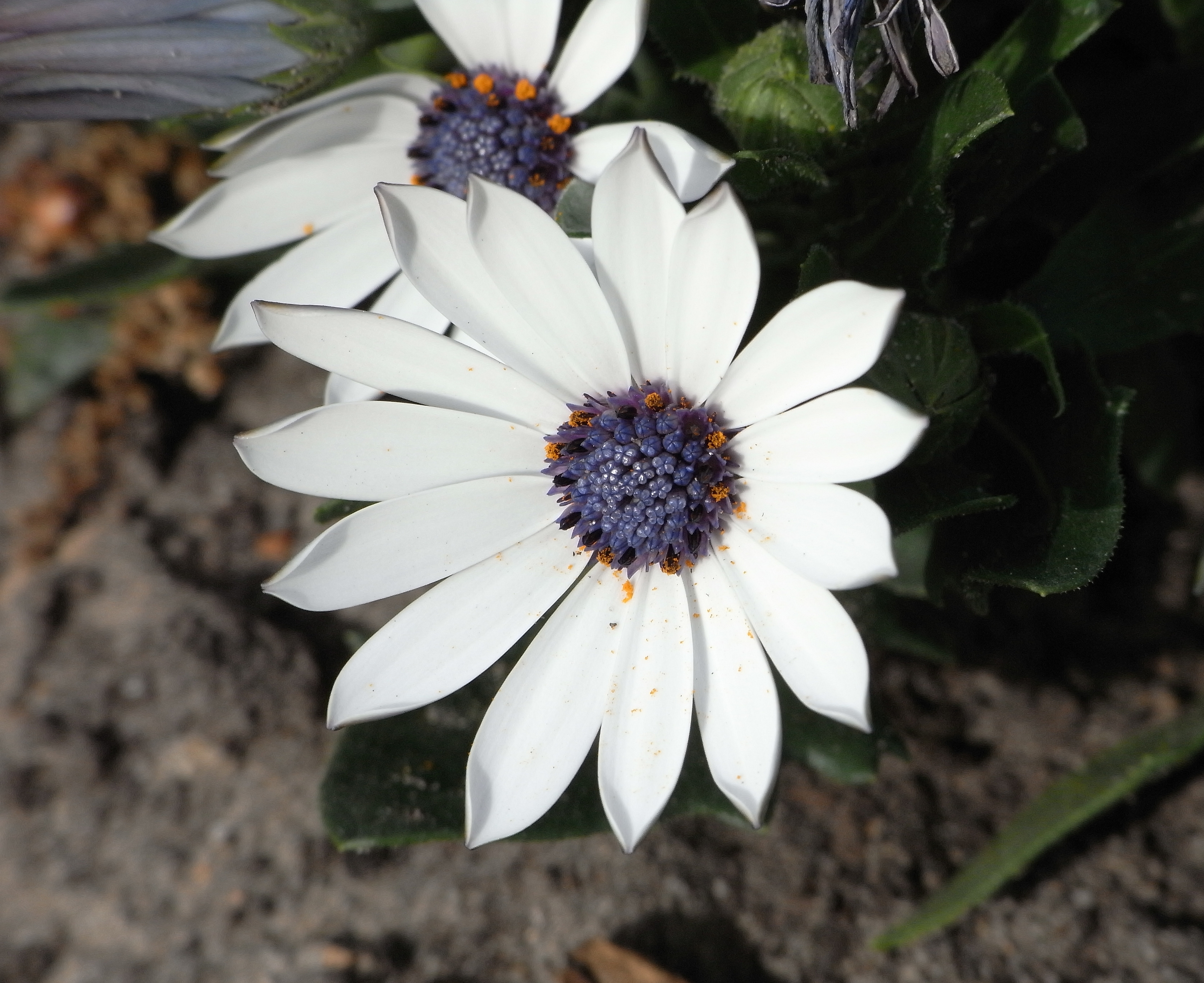 Dimorphotheca ecklonis